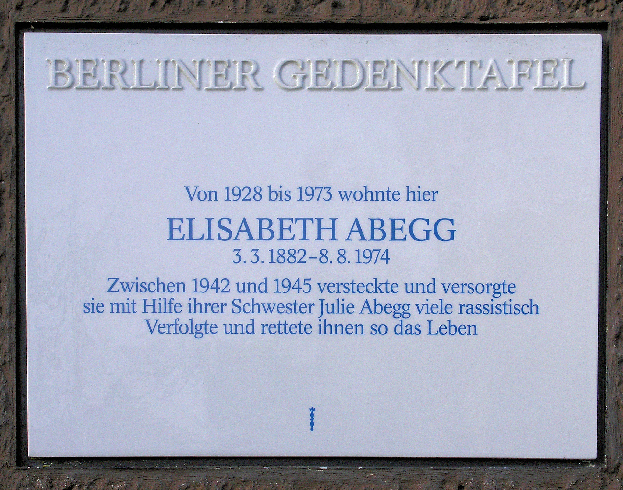 Berlin memorial plaque, Elisabeth Abegg, Tempelhofer Damm 56, Berlin-Tempelhof, Germany Koordinate:52°28′37″N 13°23′07″E / 52.47694°N 13.38528°E